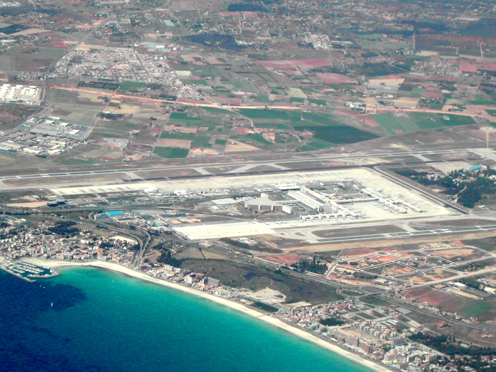 Aerial photo of Palma de Mallorca Airport (Son Sant Joan Airport) in Mallorca, Spain.